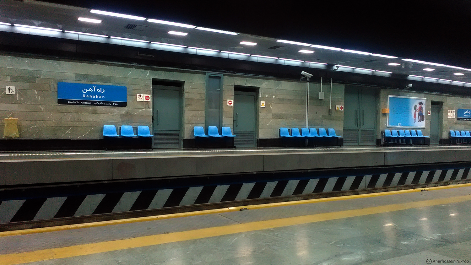 Tehran Rahahan Subway Station, serving Tehran Railway Station.